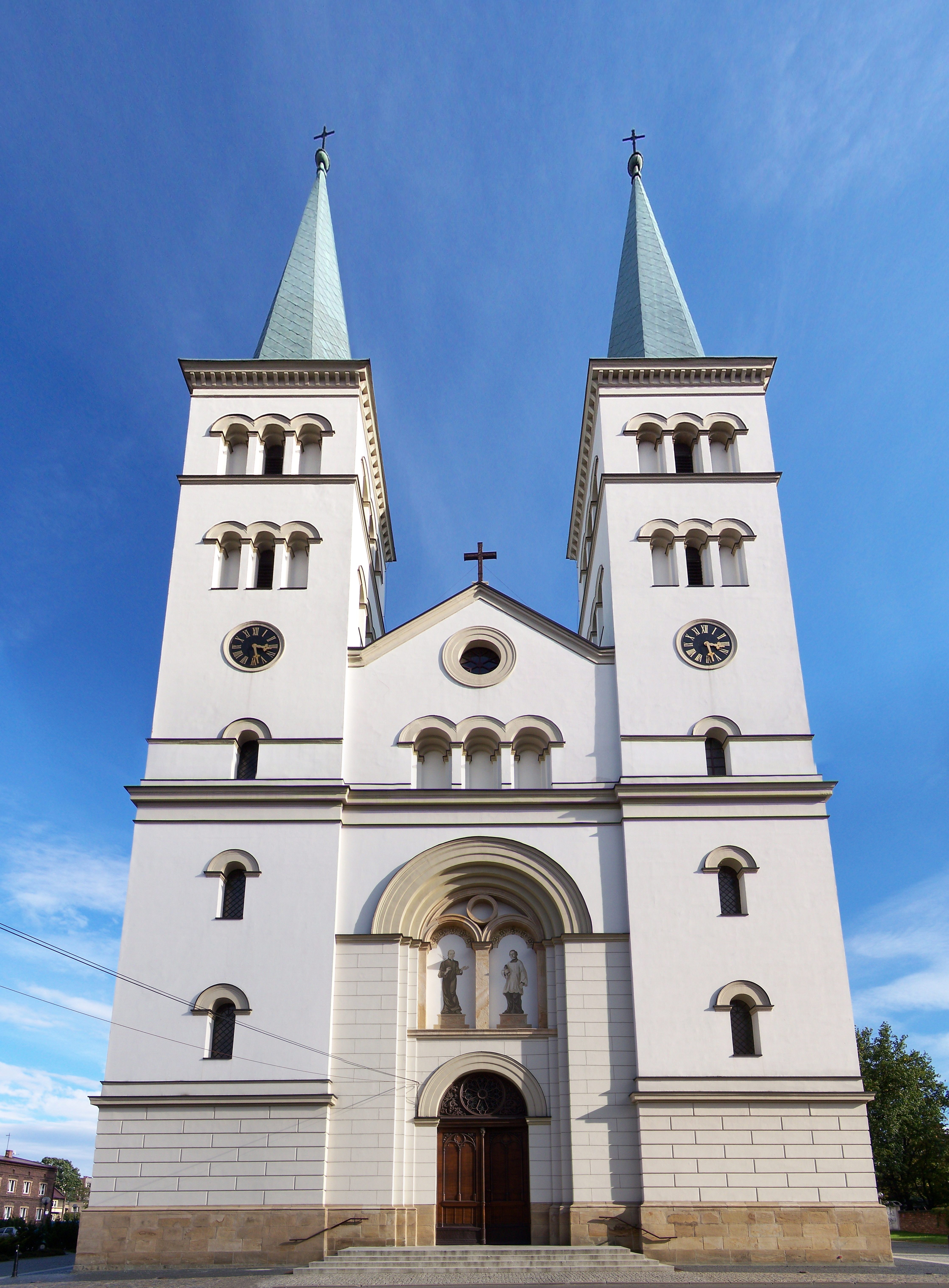 Church of S.Adalberti in Mikołów (Poland)